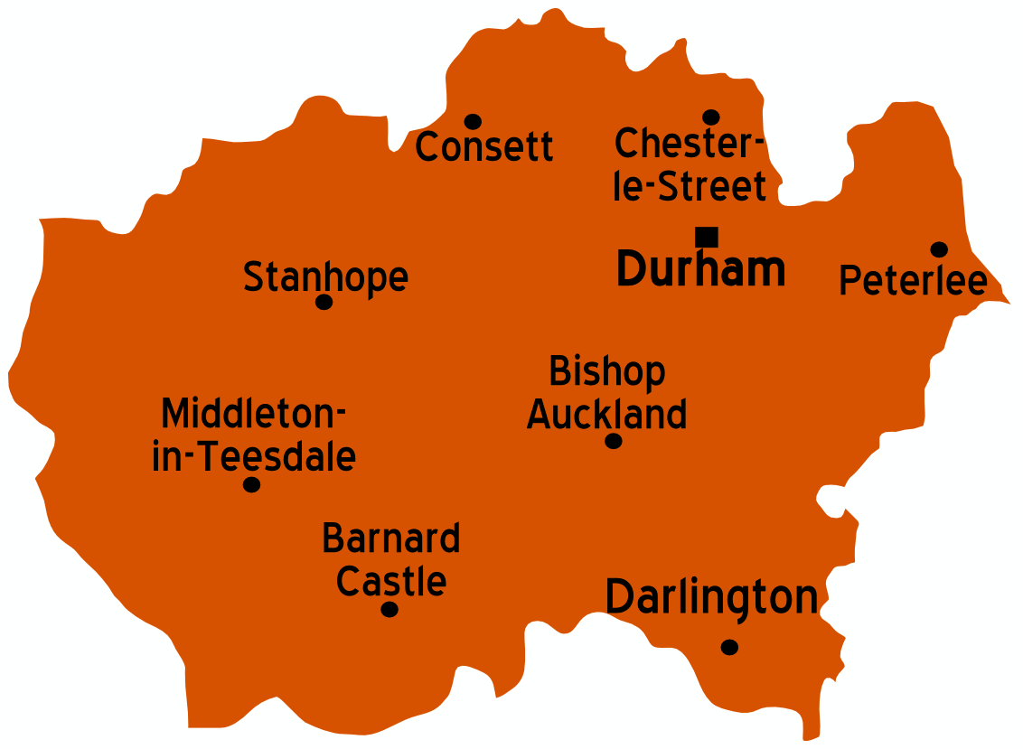 Map of County Durham, England